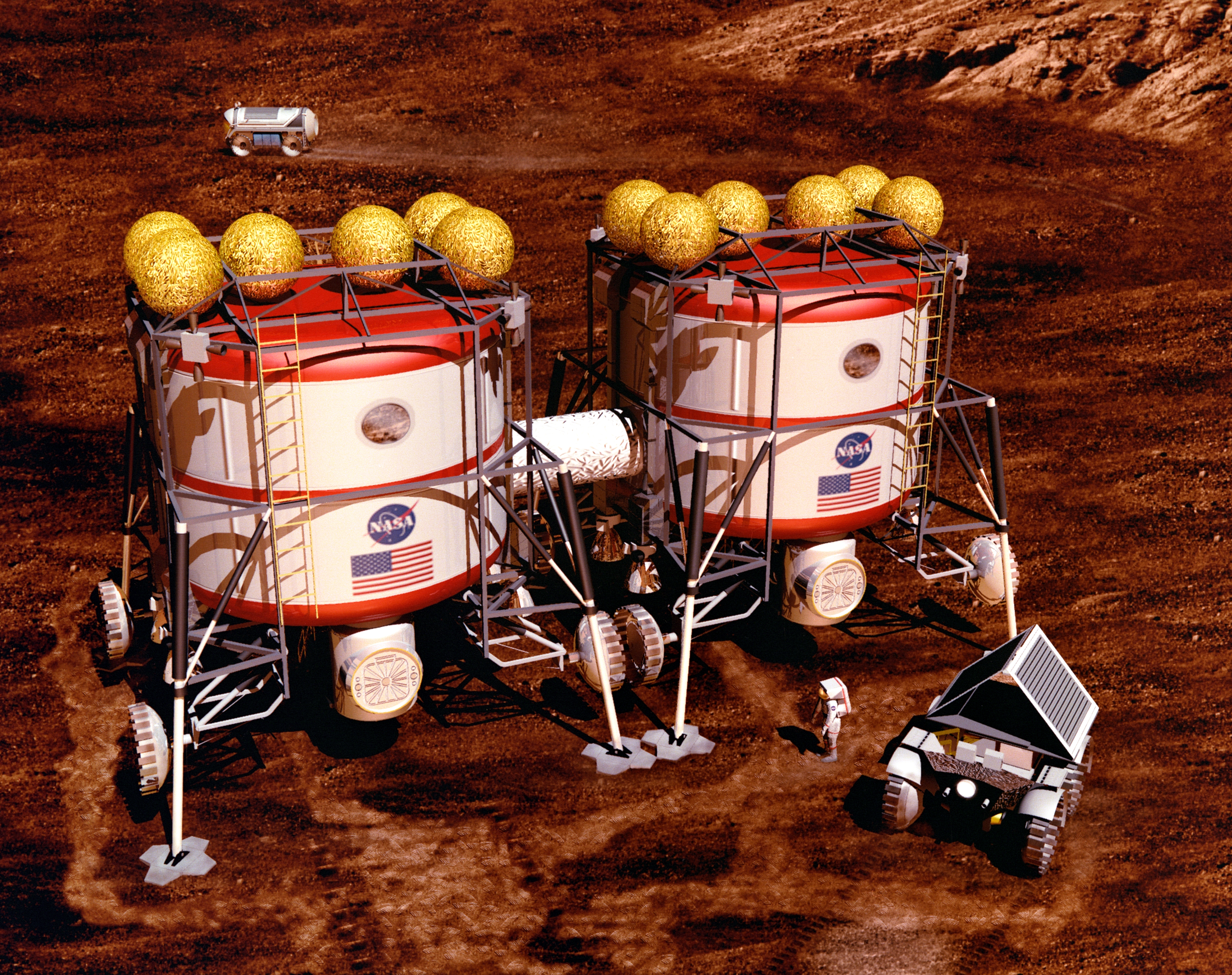 Remote surface exploration in regions around the habitat complex is accomplished by using pressurized rovers. These vehicles would allow the crew to explore beyond the range permitted by their space suits while allowing them to operate in a shirtsleeve environment. Artist concept.